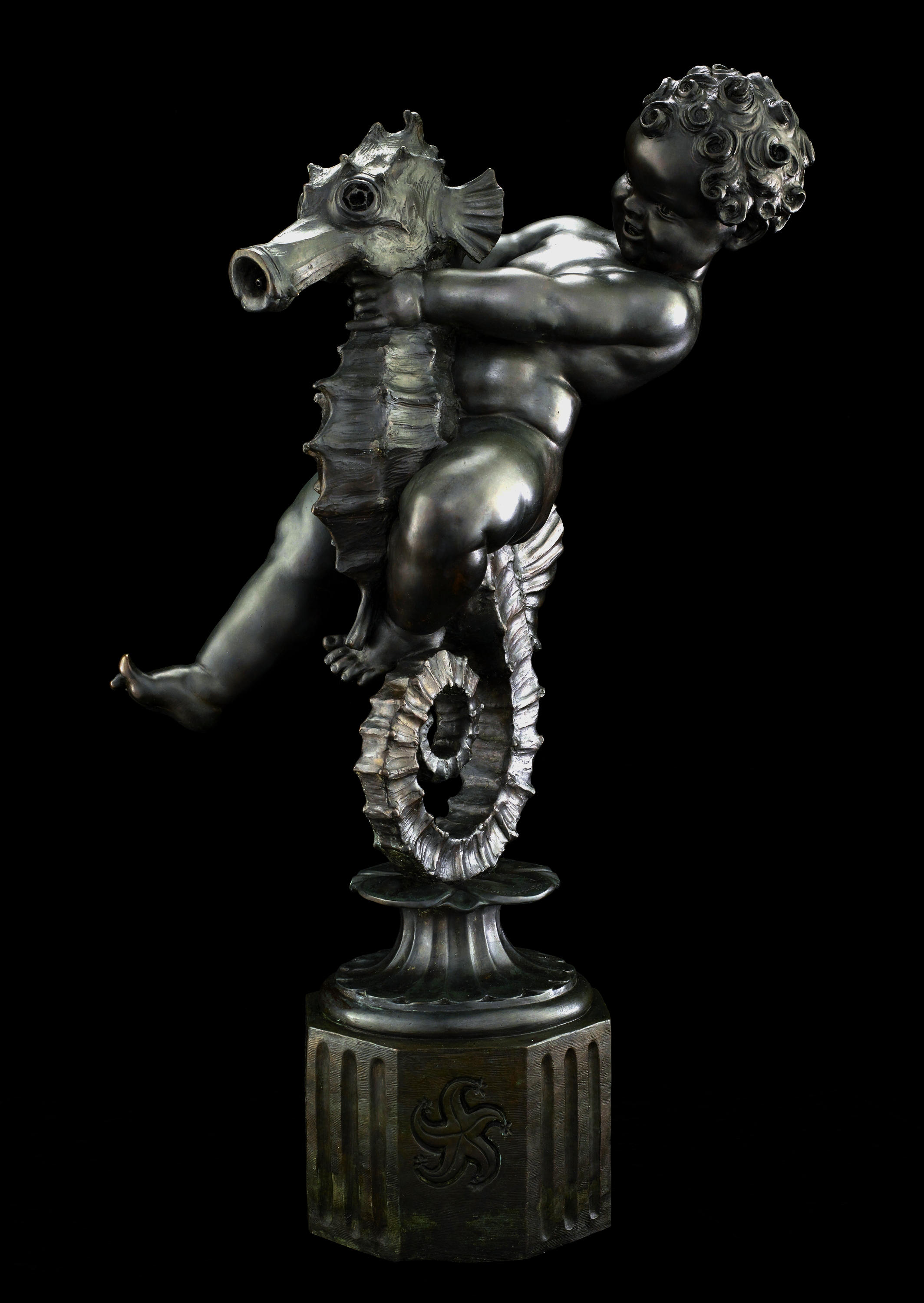 Evelyn Beatrice Longman, American, 1874 - 1954; Putto on Seahorse; 1933; Bronze; 38 × 20 1/2 × 14 in. (96.52 × 52.07 × 35.56 cm); Minneapolis Institute of Art; Gift of Susan and David Plimpton in celebration of the 100th anniversary of the Minneapolis Institute of Arts 2015.26